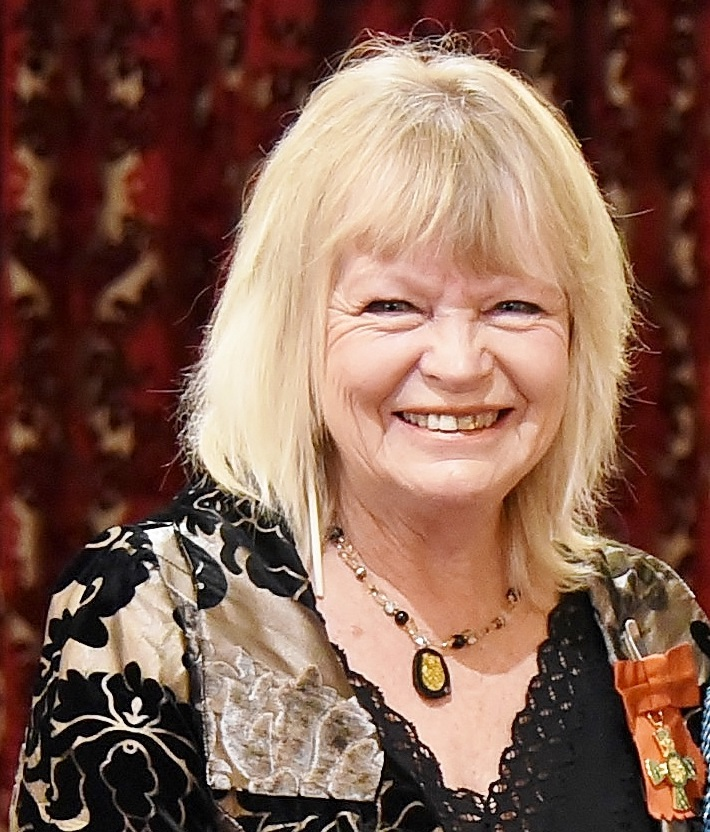 Annette Main at her ONZM investitute, May 2017